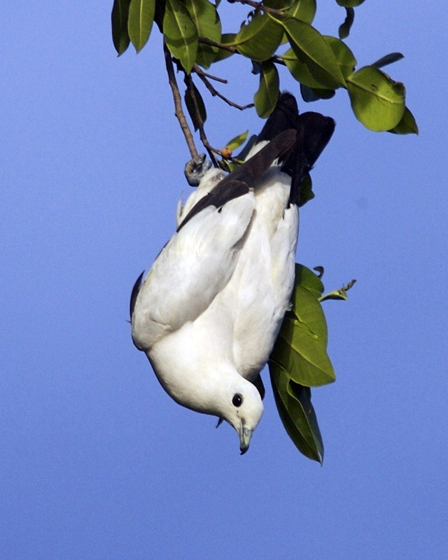 Pied Imperial Pigeon Ducula bicolor bicolor Tangkoko, Sulawesi, Indonesia 8th. July 2006